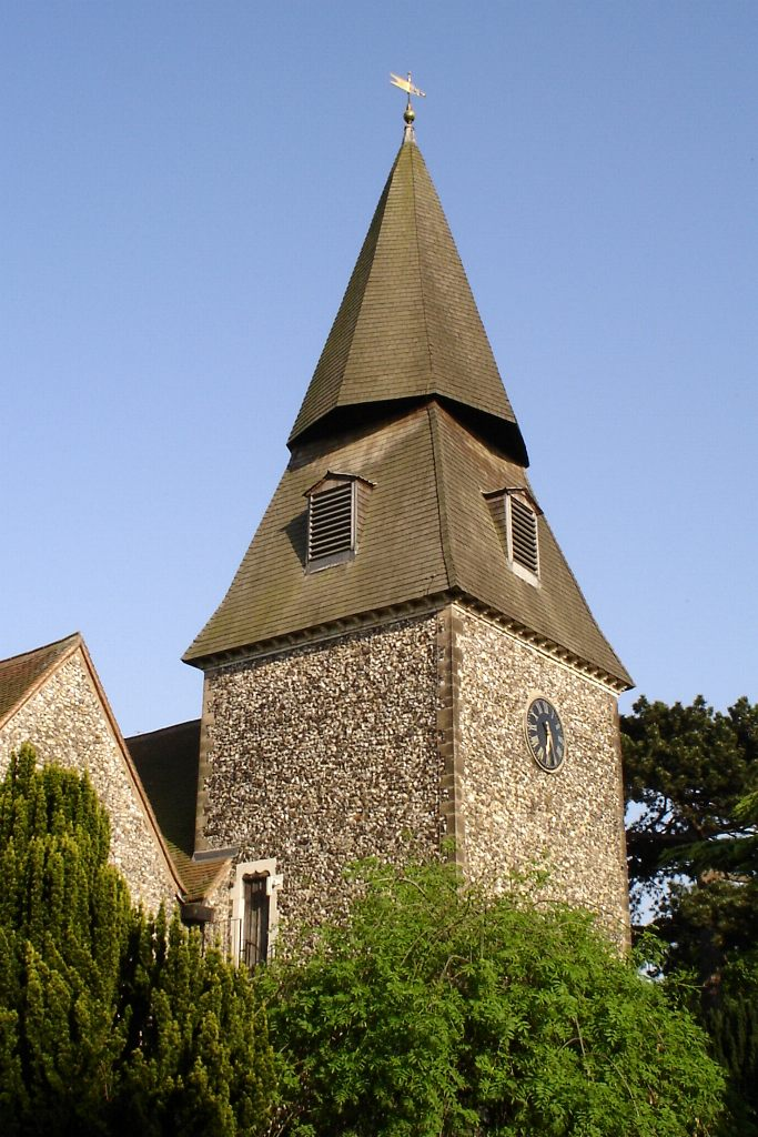 West tower and spire of St Mary the Virgin parish church, Bexley, London (formerly Kent)